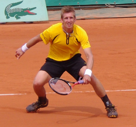 Nimo vollying against roddick